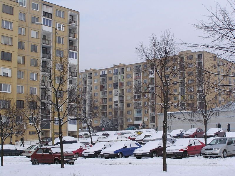 Author: Marian GLADIS